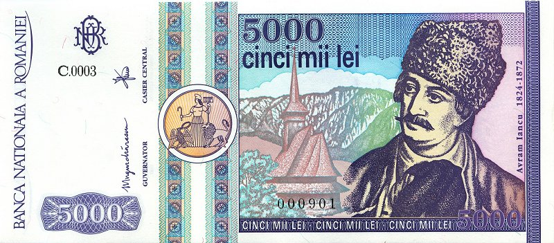 5000 Romanian leu from 1992 - obverse